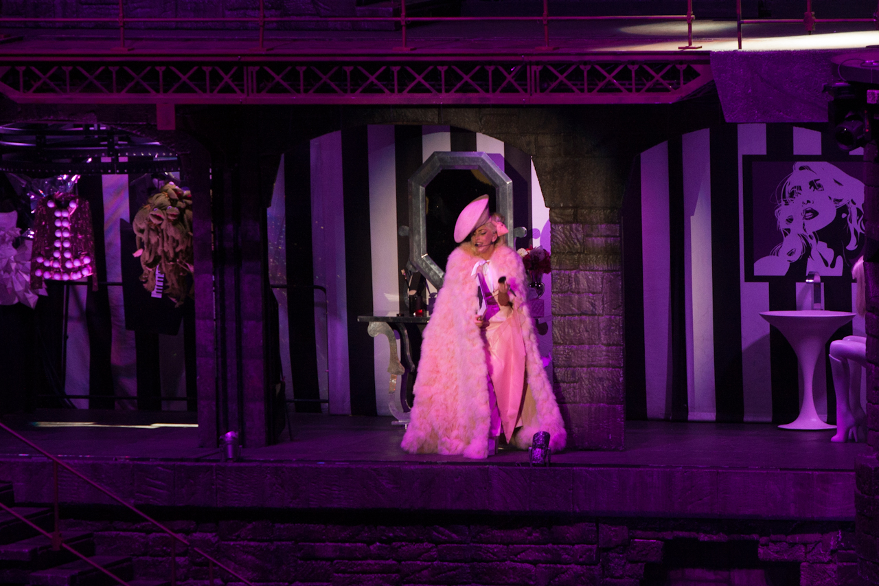 Lady Gaga performing "Fashion of His Love" during a Milan show of The Born This Way Ball Tour.